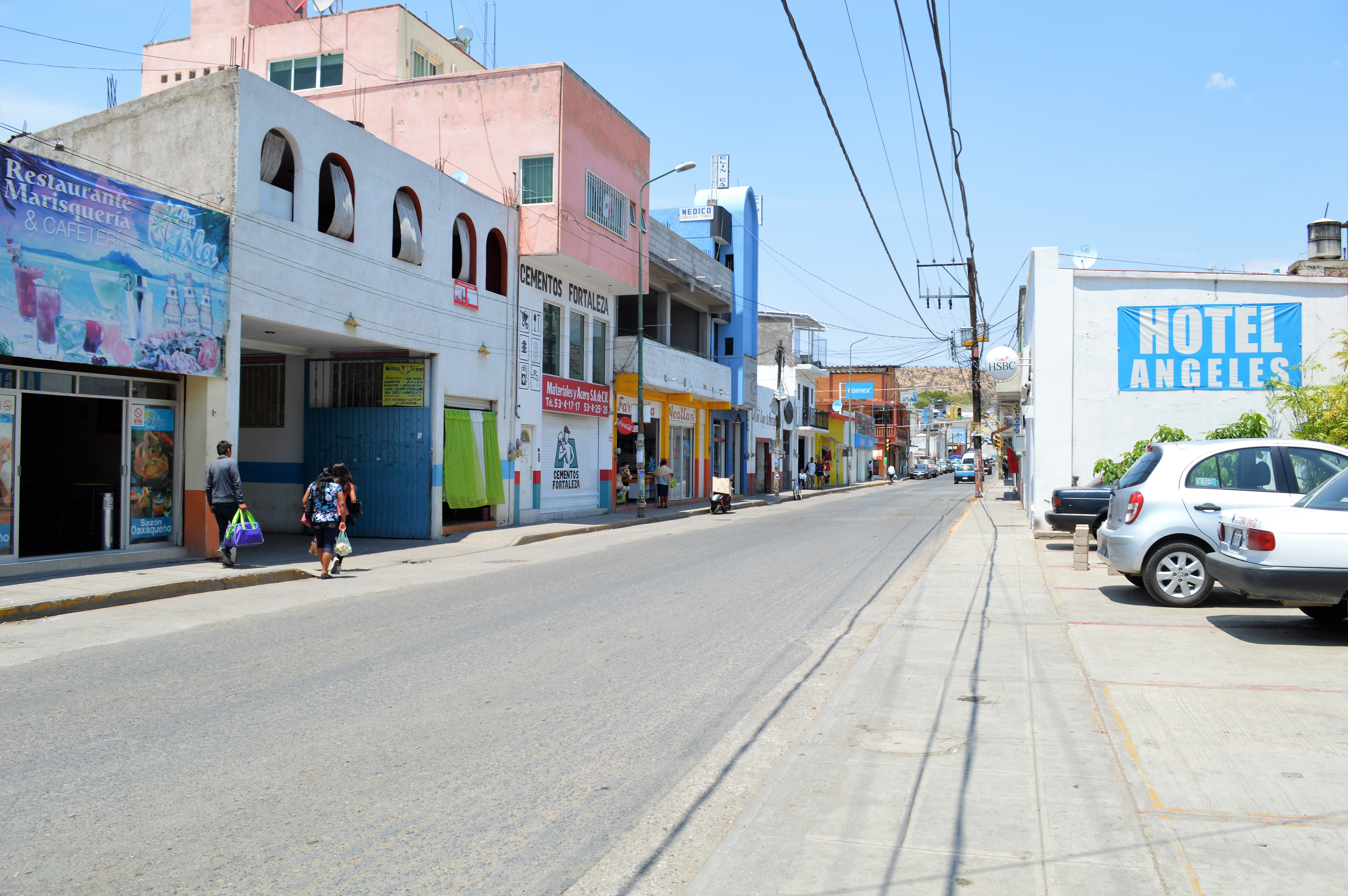 Calle Revolución in Acatlán de Osorio, Puebla